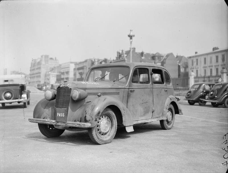 The British Army in France 1940 Austin saloon car pressed into military use, with worn coat of camouflage paint, 9 May 1940.